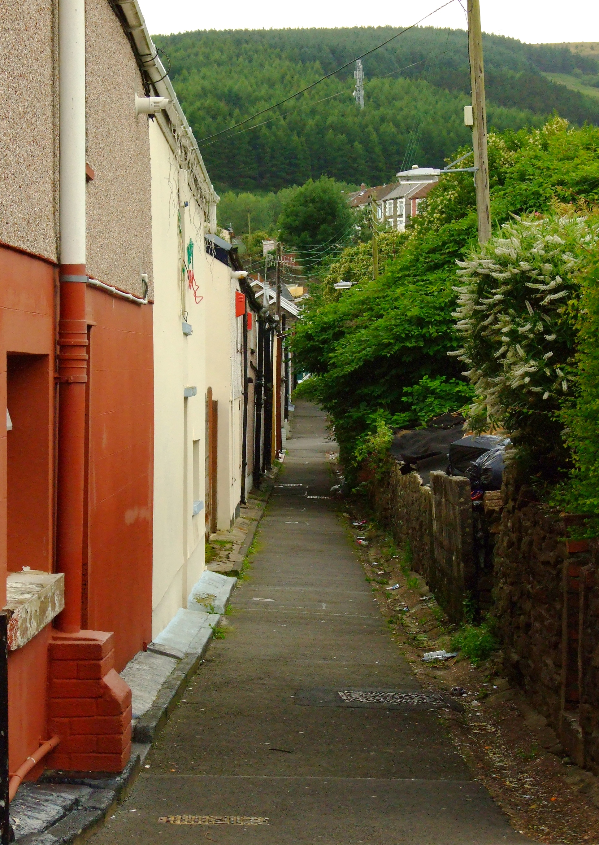 One of the narrow terraces in Llwynypia, Rhondda, S.Wales, UK